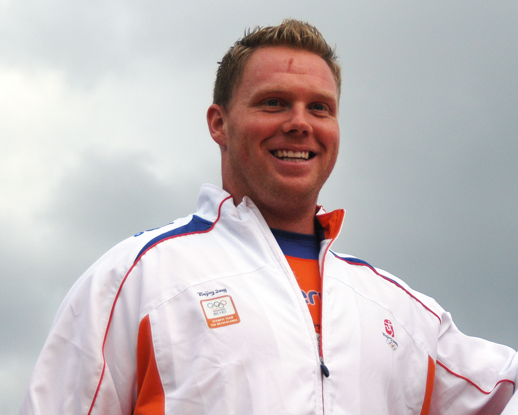 Rutger Smith at the Olympic welcome in the Olympic Stadium in Amsterdam, the Netherlands